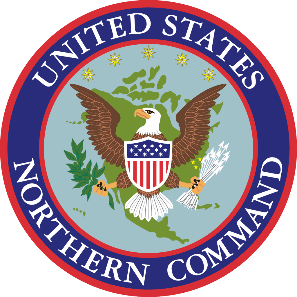 The official seal of United States Northern Command (USNORTHCOM). From Crest & Heraldry: The eagle symbolizes our great nation and our alertness, ready to defend our homeland. The olive branch symbolizes peace. The group of 13 arrows symbolizes war and represents the first 13 states. The eagle's head is turned toward the olive branch, indicating our desire for peace. The shield symbolizes a warrior's primary piece of defensive equipment. The 13 alternating red and white bars on the shield represent the 13 original colonies. The chief, in blue, holds 13 six-pointed stars, a reference to the six-pointed design from General George Washington's personal flag. A depiction of Northern Command's area of responsibility (AOR) is in the background, shielded by the eagle. On the AOR are three stars, a remembrance of each of the sites of the Sept. 11, 2001 attacks. The stars are gold, a symbol of those who lost their lives. The gold star accorded the rightful honor and glory to the person for his offering of supreme sacrifice for his country. The five stars at the top of the crest represent the five services: Army, Navy, Air Force, Marine Corp, and Coast Guard. The stars are eight-pointed, representing the eight points on a compass and symbolizing our mission to counter the global threat of terrorism. The stars are lined up over the AOR, depicting the umbrella of protection that USNORTHCOM provides North America. The outside rings of red, blue, and red with the white lettering of the command's name represent the colors of the nation and national flag.